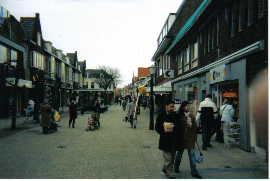 A picture of the Langstraat (shopping street) in Wassenaar, The Netherlands